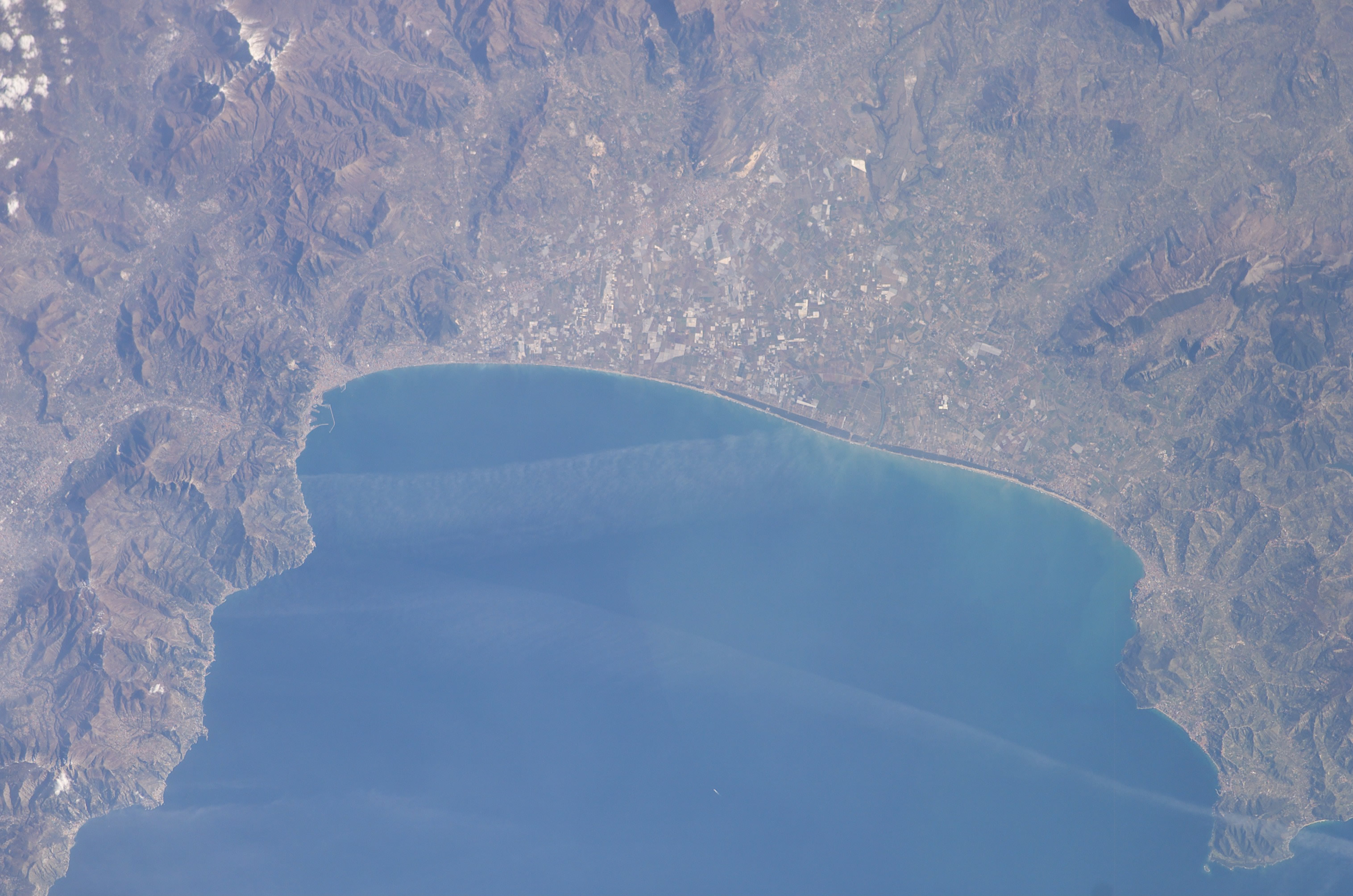 Gulf of Salerno, Battipaglia, Italy (ISS Expedition 6)